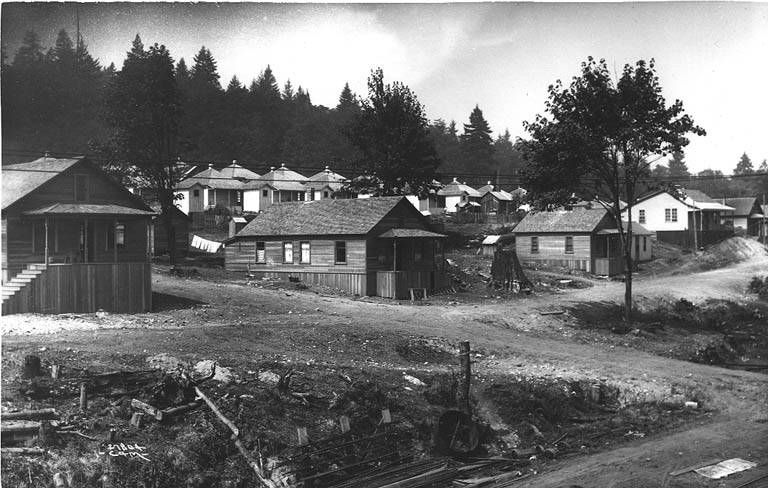 Subjects (LCTGM): Dwellings--Washington (State)--Issaquah